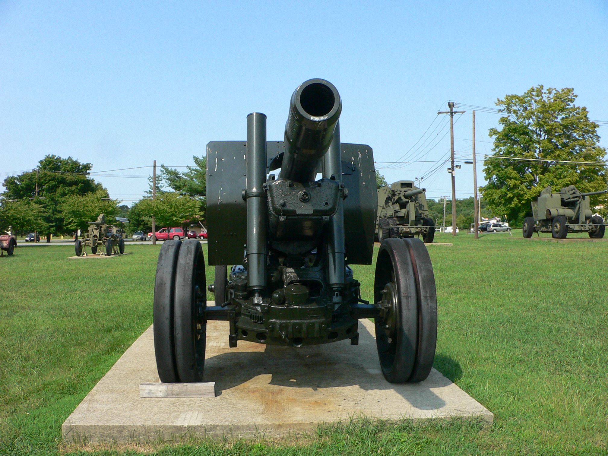 Picture taken by myself, Mark Pellegrini, at the United States Army Ordnance Museum (Aberdeen Proving Ground, MD) on August 14, 2007.